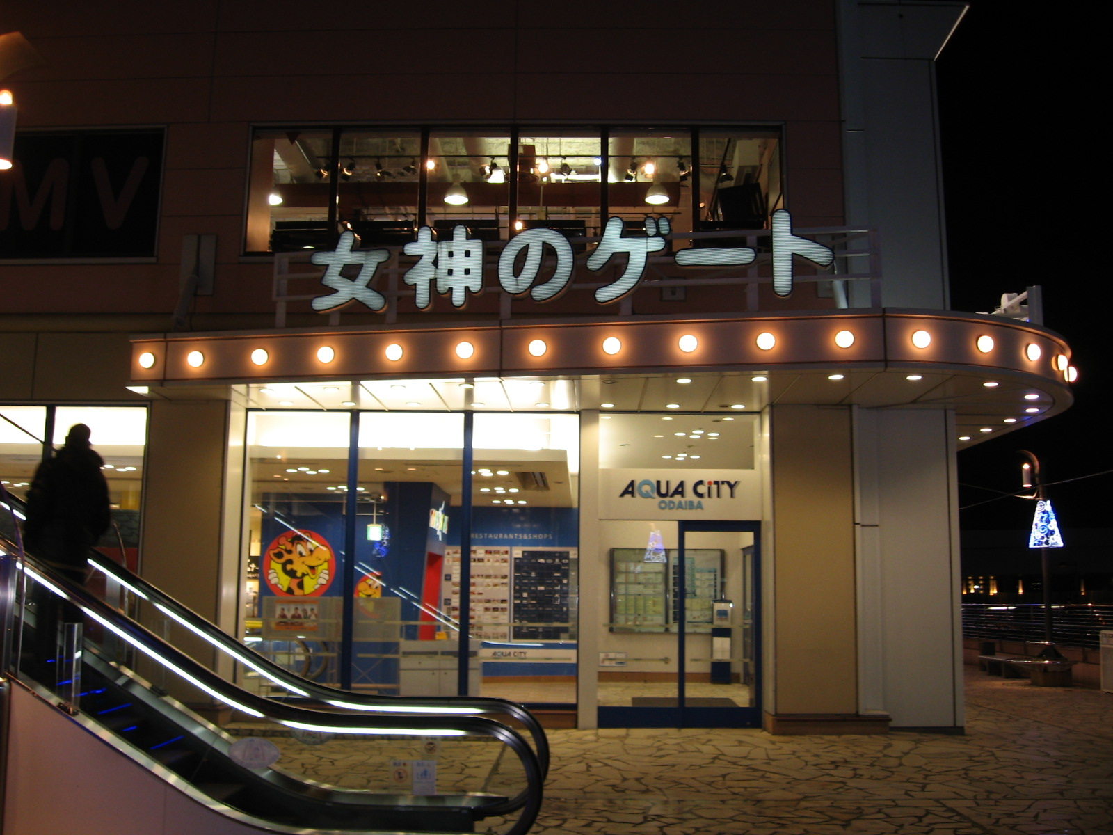 Aqua city Odaiba "Megami no gate".